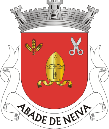 Crest of Abade de Neiva, a parish in Barcelos municipality (Portugal)